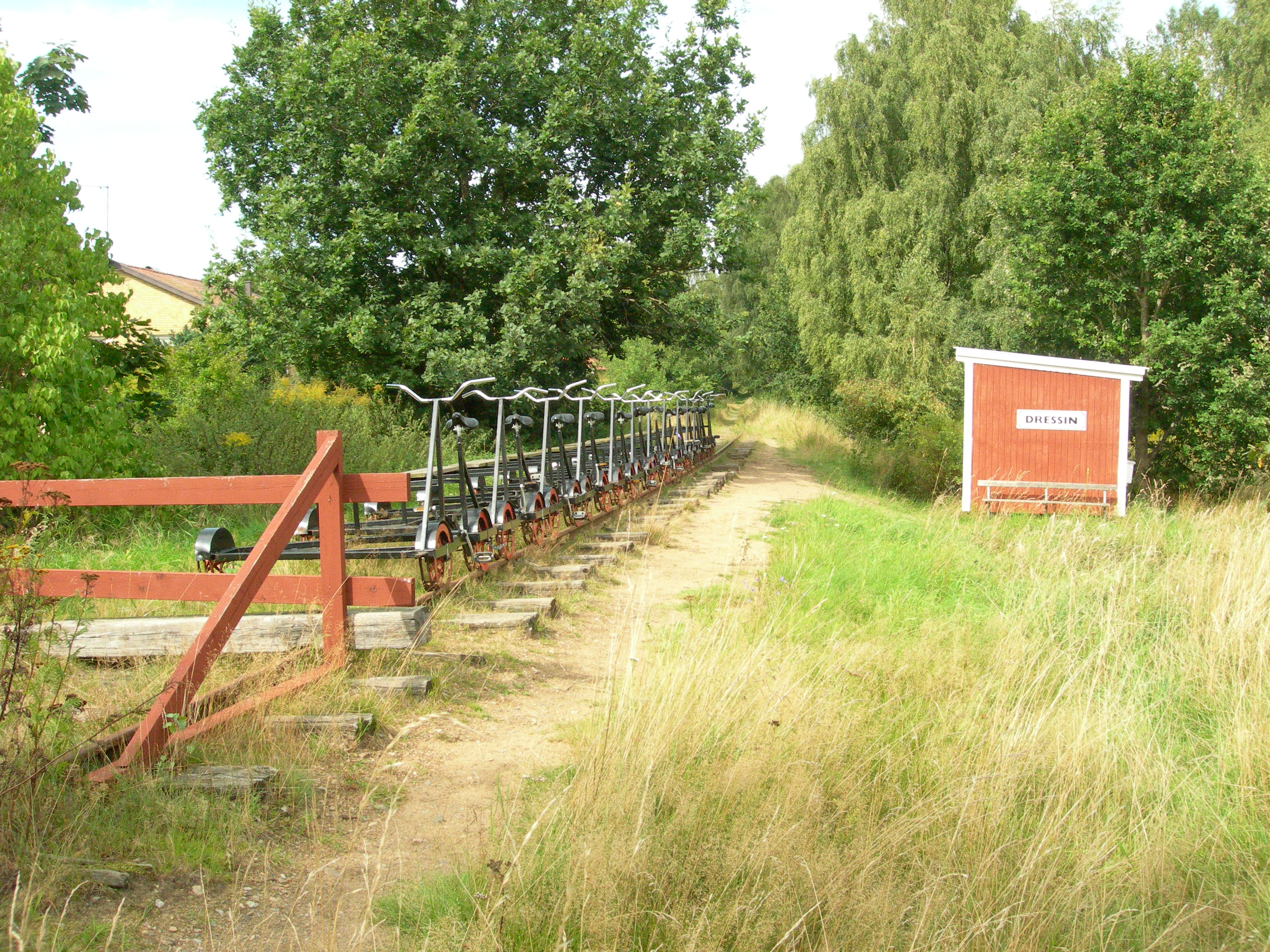 Rail-cycle draisines for rent in Broby, Sweden. The railway goes between Broby and Glimminge.